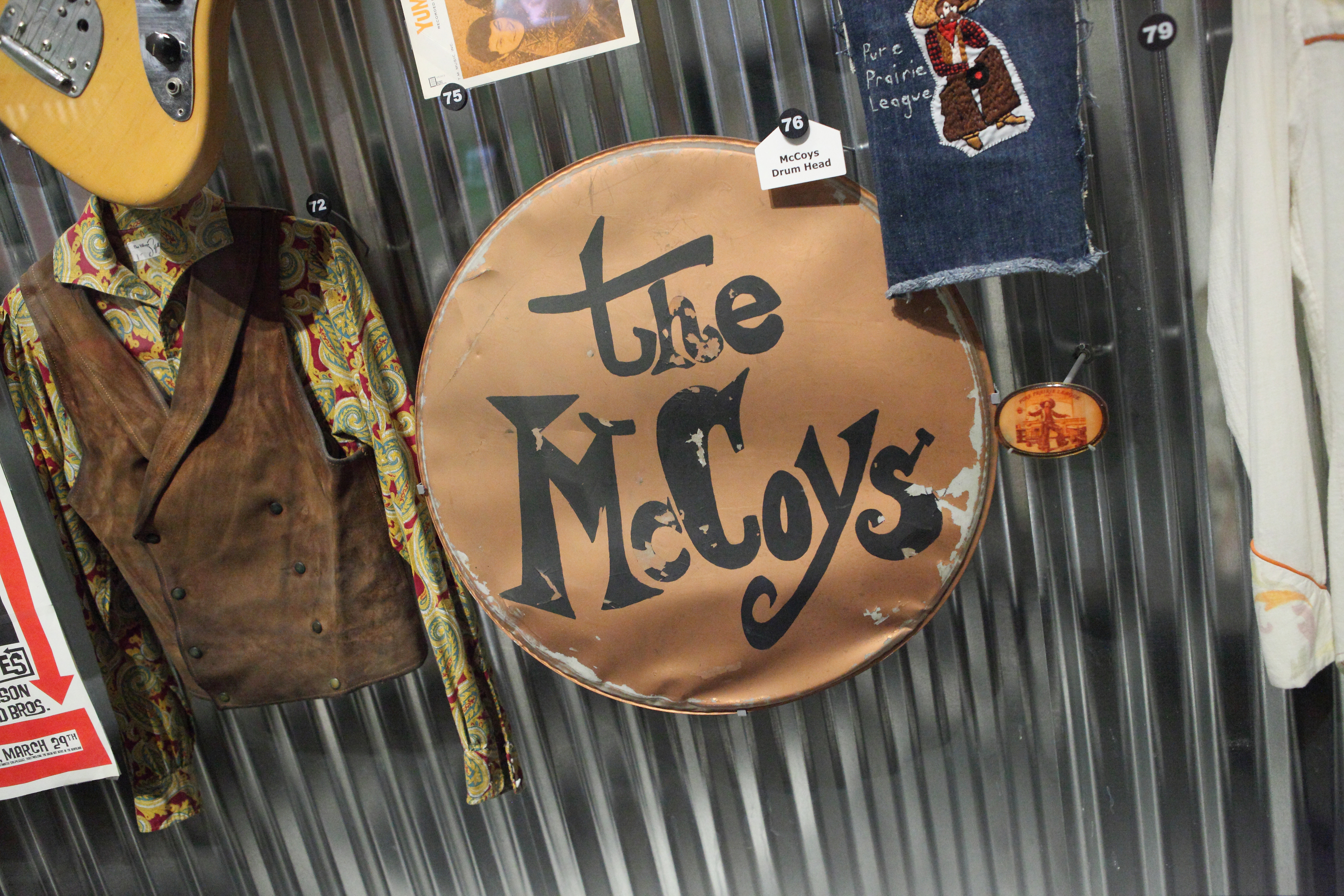 The McCoys drumhead at the Rock and Roll Hall of Fame in Cleveland, Ohio. Flickr Tags: Rock and Roll Hall of Fame Cleveland Ohio The McCoys drumhead. from Flickr album "Rock and Roll Hall of Fame" by Sam Howzit